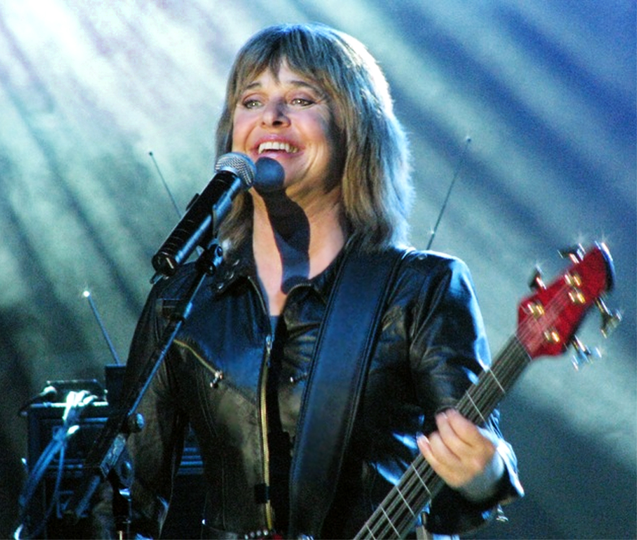 Singer Suzi Quatro at AIS Arena in Canberra, Australia on 26 September 2007.